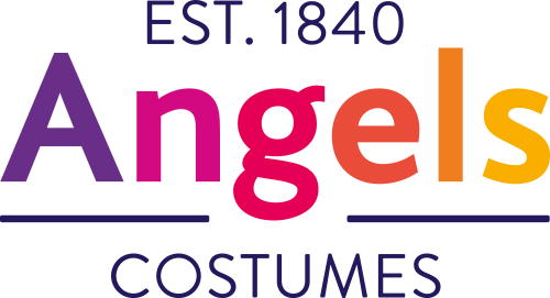 The official logo of Angels Costumes